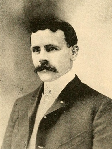 Walter K. Farnsworth, Vermont Lieutenant Governor, 1925 to 1927